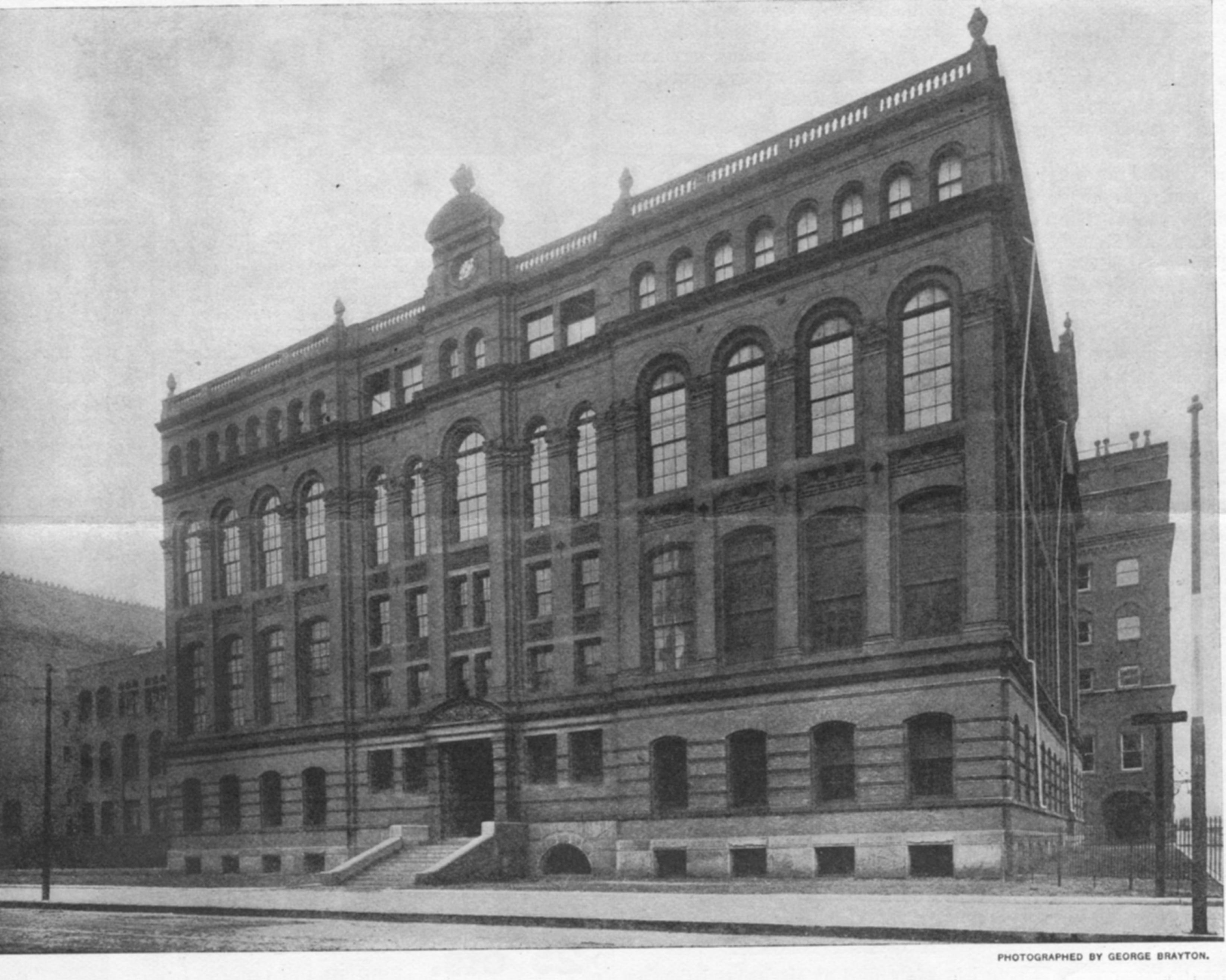 scanned from paper copy of cover of "The Youth's Companion, New England Edition," publication date: 2 May 1907